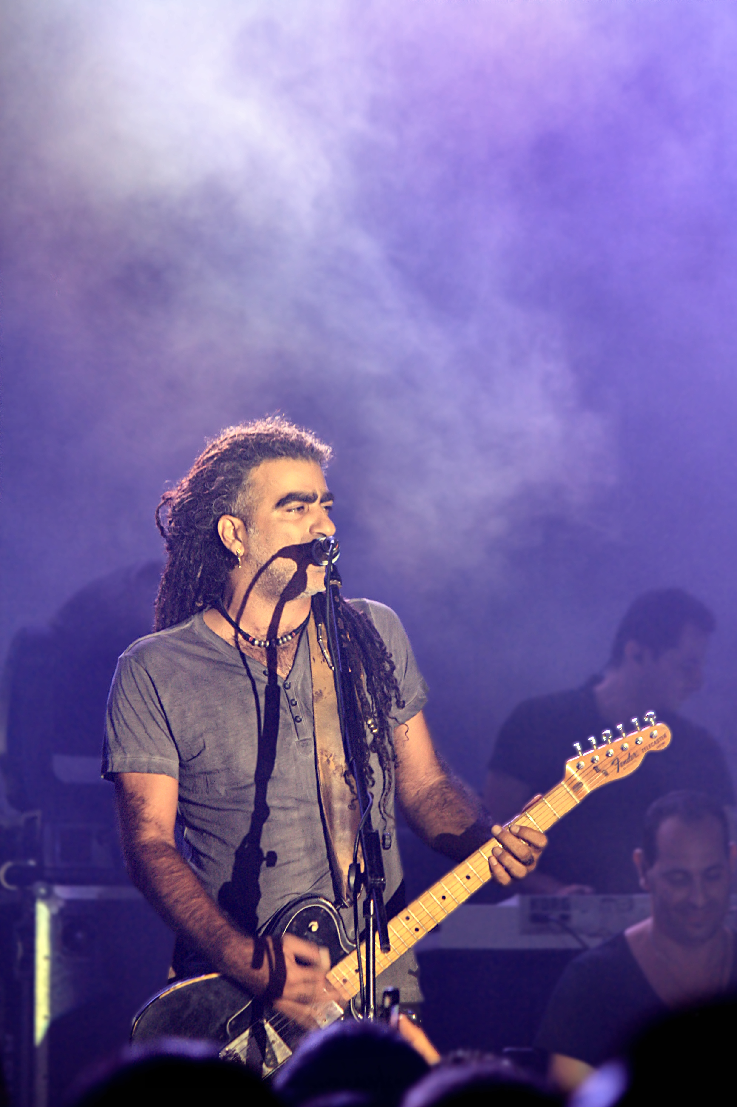 Mosh Ben-Ari.